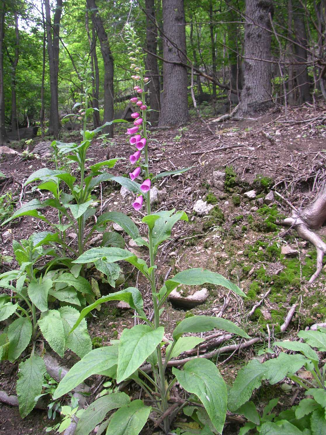 Digitalis purpurea Photo taken by Miaow Miaow at Jezerka NPR, Ore Mountains, Czech Republic on 6th June 2004, PD-self